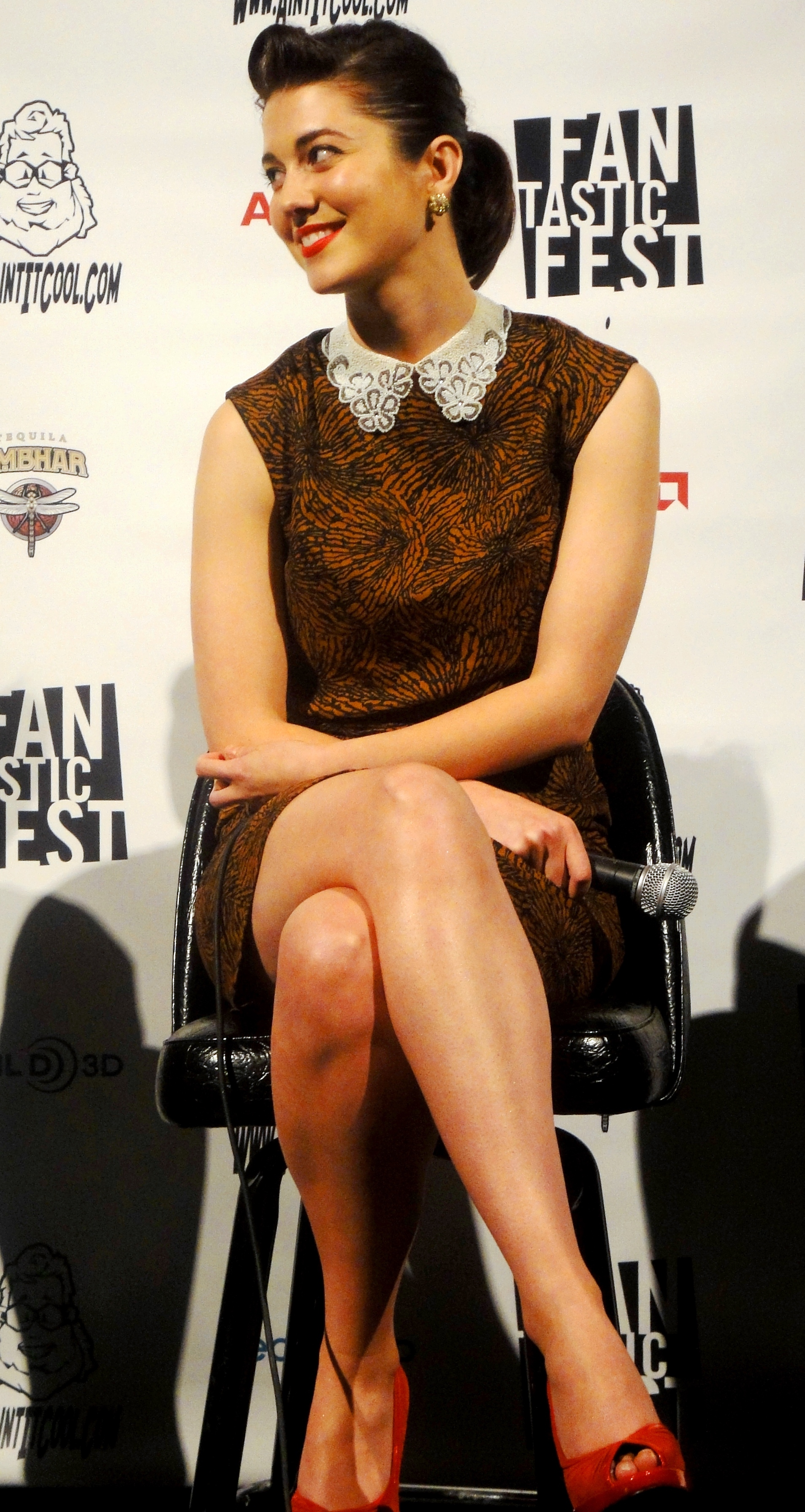 Mary Elizabeth Winstead at the Scott Pilgrim vs. The World, Austin Alamo Drafthouse (South Lamar) 2010.